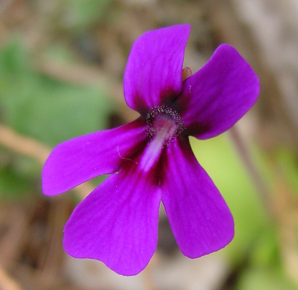 Pinguicula moranensis flower. Taken in situ in Queretaro, Mexico.